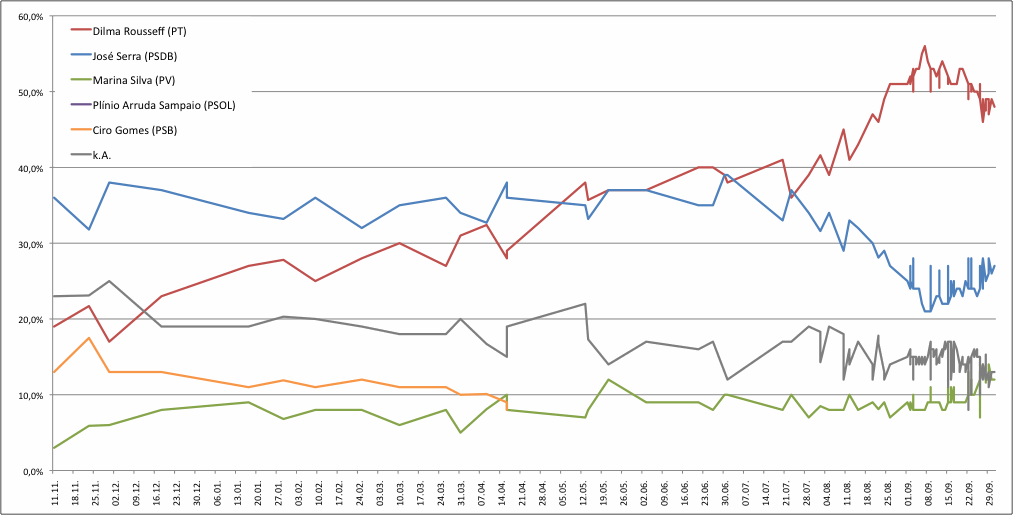 graph, diagram, elections, polls, president, Brazil, 2010, Lula, Dilma Rousseff, Dilma, José Serra, Serra, Marina Silva, Marina, Plínio Arruda Sampaio, Plínio, Ciro Gomes